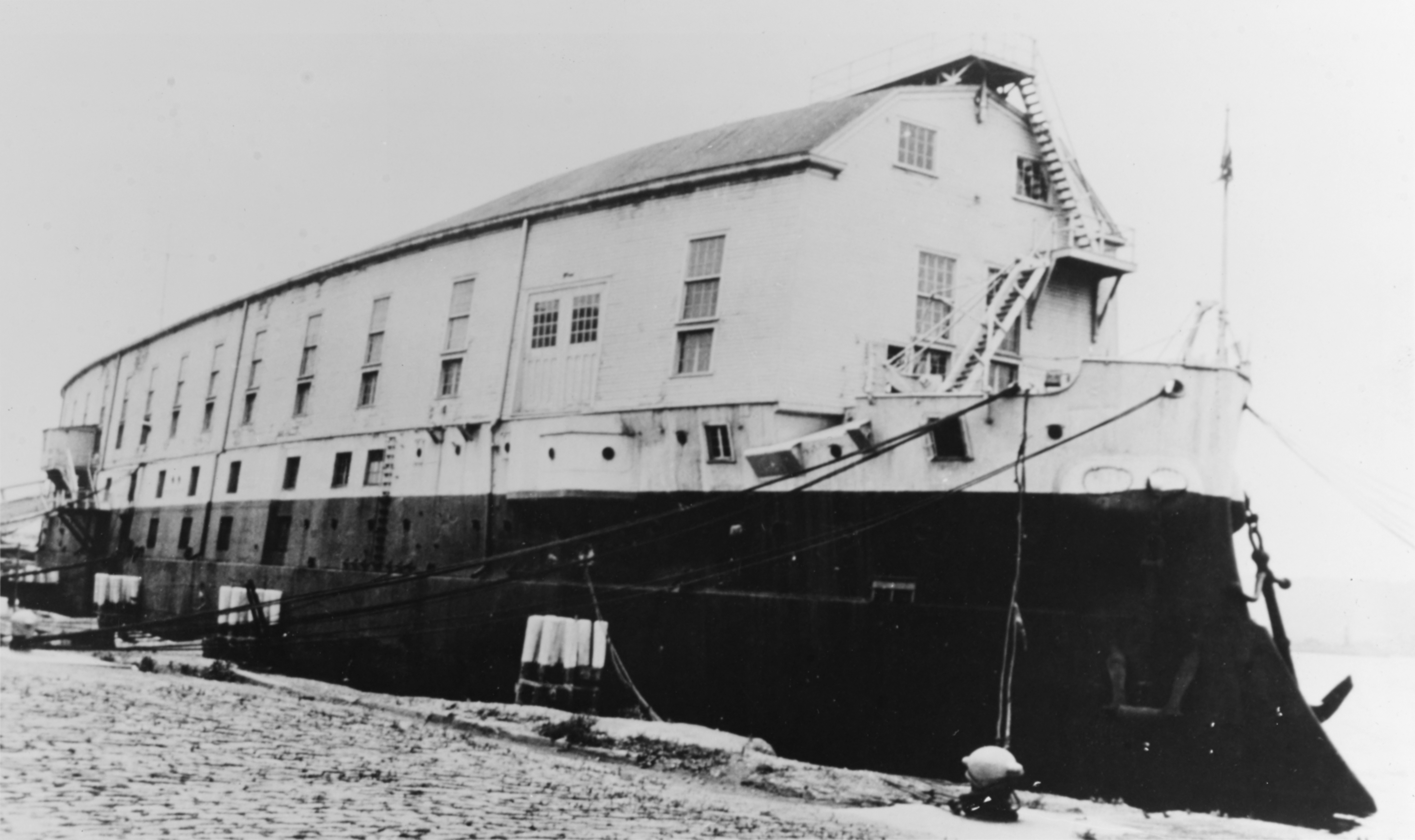 (ex-Illinois, BB-7) Tied up, probably at New York, during the 1940s or early 1950s. Courtesy of Donald M. McPherson, 1969. U.S. Naval History and Heritage Command Photograph.